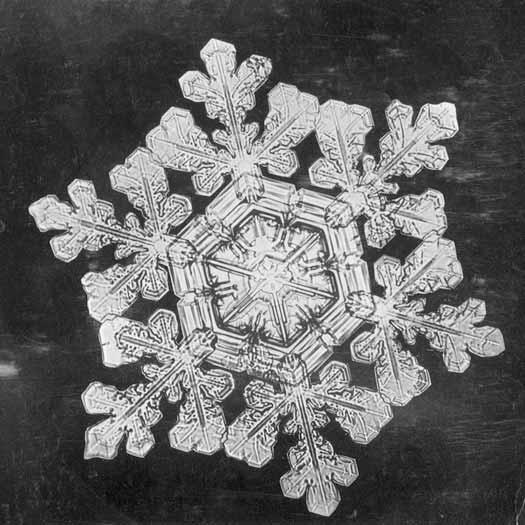 Type: Photographs Date: 1890 Image ID: RU 31 Box 12 Folder 17 Description: Wilson A. Bentley first became fascinated with snow during his childhood on a Vermont farm, and he experimented for years with ways to view individual snowflakes in order to study their crystalline structure. He eventually attached a camera to his microscope, and in 1885 he successfully photographed the flakes. This photomicrograph and more than five thousand others supported the belief that no two snowflakes are alike, leading scientists to study his work and publish it in numerous scientific articles and magazines. In 1903 Bentley sent prints of his snowflakes to the Smithsonian, hoping they might be of interest to Secretary Samuel P. Langley. Persistent URL:Link to data base record Repository:Smithsonian Institution Archives View more collections from the Smithsonian Institution.